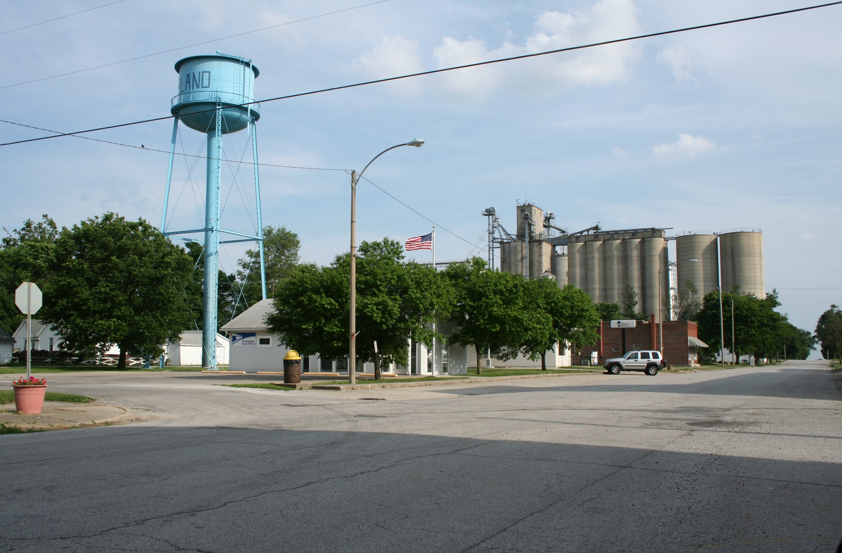 De Land Illinois Water Tower, Post Office and Grain Elevator